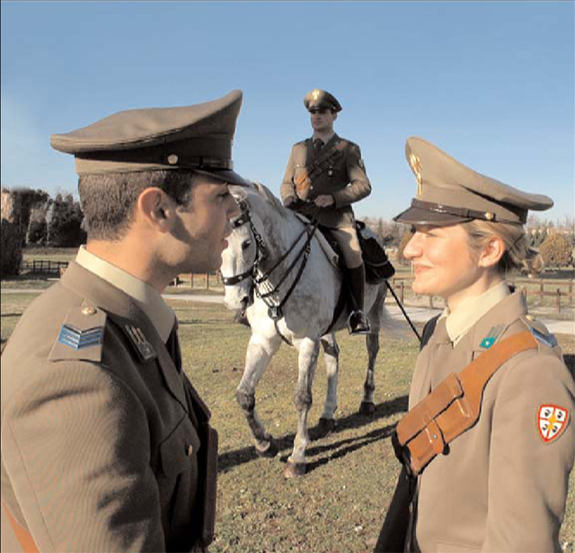 Soldiers of the 8° Cavalry Regiment, Italian Army. Downloaded from the official homepage of the Italian Army.